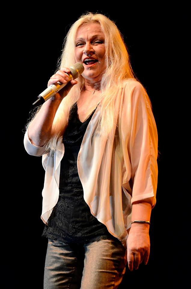 Toni Willé at the NDR 1 Niedersachsen oldies show, Aurich, Germany on 25th October 2013